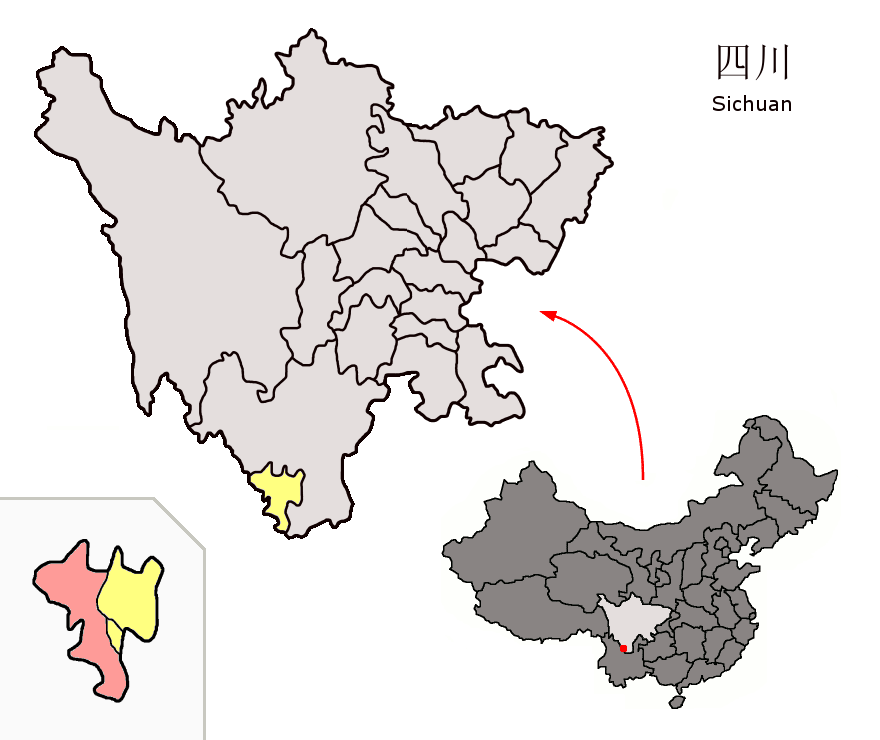 Location of Panzhihua City Districts (pink) and Panzhihua Prefecture (yellow) within Sichuan province of China Map drawn in september 2007 using various sources, mainly : Sichuan province administrative regions GIS data: 1:1M, County level, 1990 Sichuan Counties map from